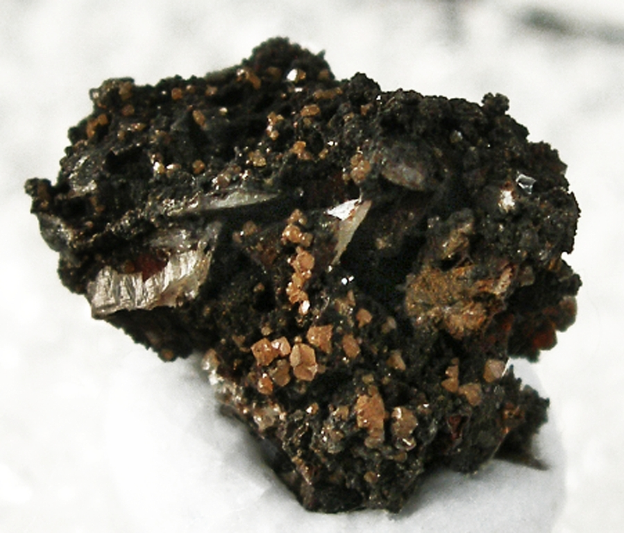 Marshite, Stolzite Locality: Junction Mine, Block 14 opencut, Broken Hill, Broken Hill district, Yancowinna County, New South Wales, Australia Size: 0.9 cm x 0.6 cm x 0.5 cm Scattered on a gangue matrix are tiny crystals, about 1 mm across, or transparent, tan-colored marshite, a rare copper iodide. This is classic and very old material for the locality, hard to obtain today. Tiny stolzite crystals are in association. Ex. Martin Zinn Collection.